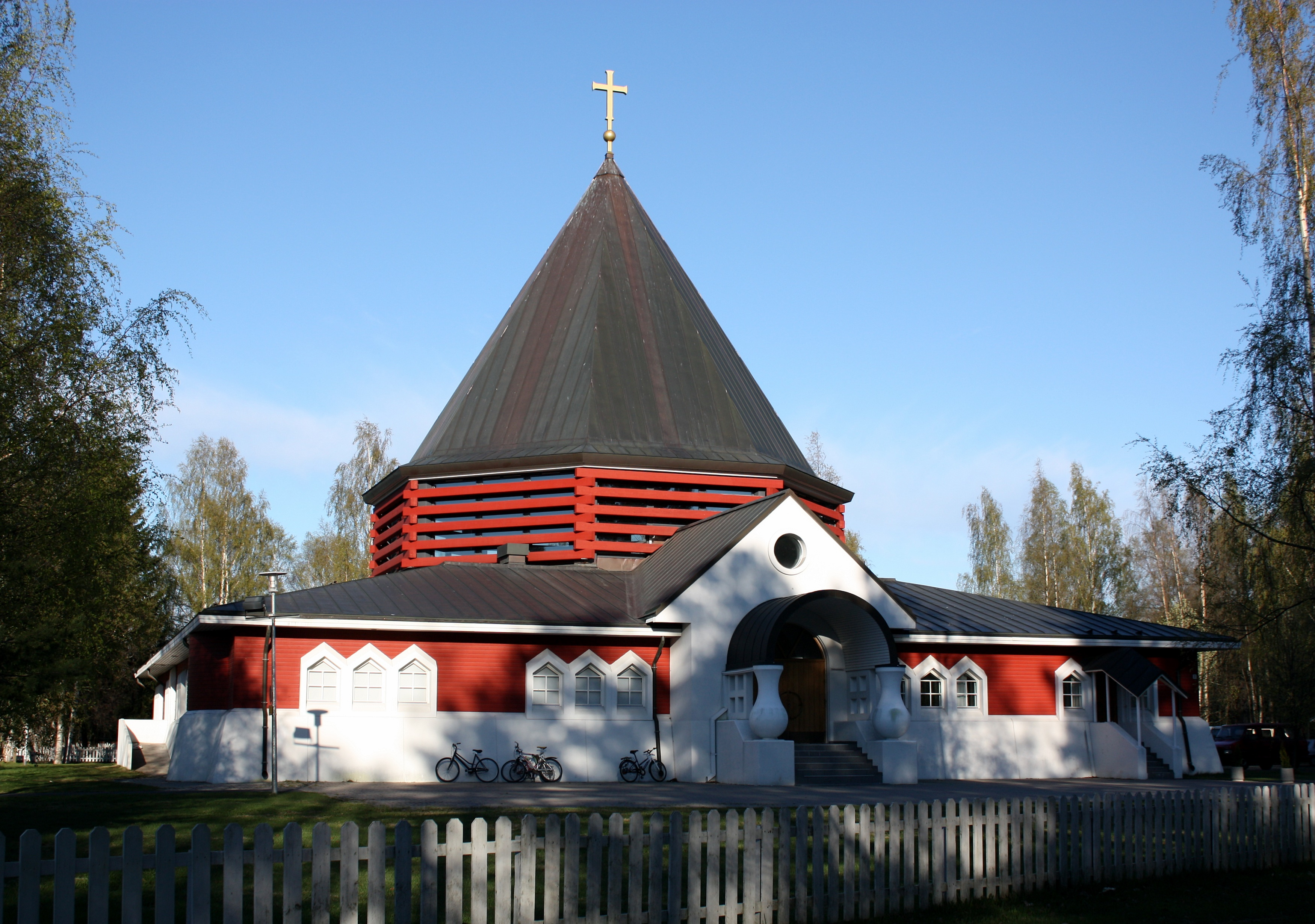 The church of the Holy Family of Nazareth Parish in Koskela neighbourhood, Oulu, Finland. The catholic parish of Oulu includes the provinces of Northern Ostrobothnia and Lapland. The church was designed by architect Gabriele Geronzi and it was built in the year 2000.